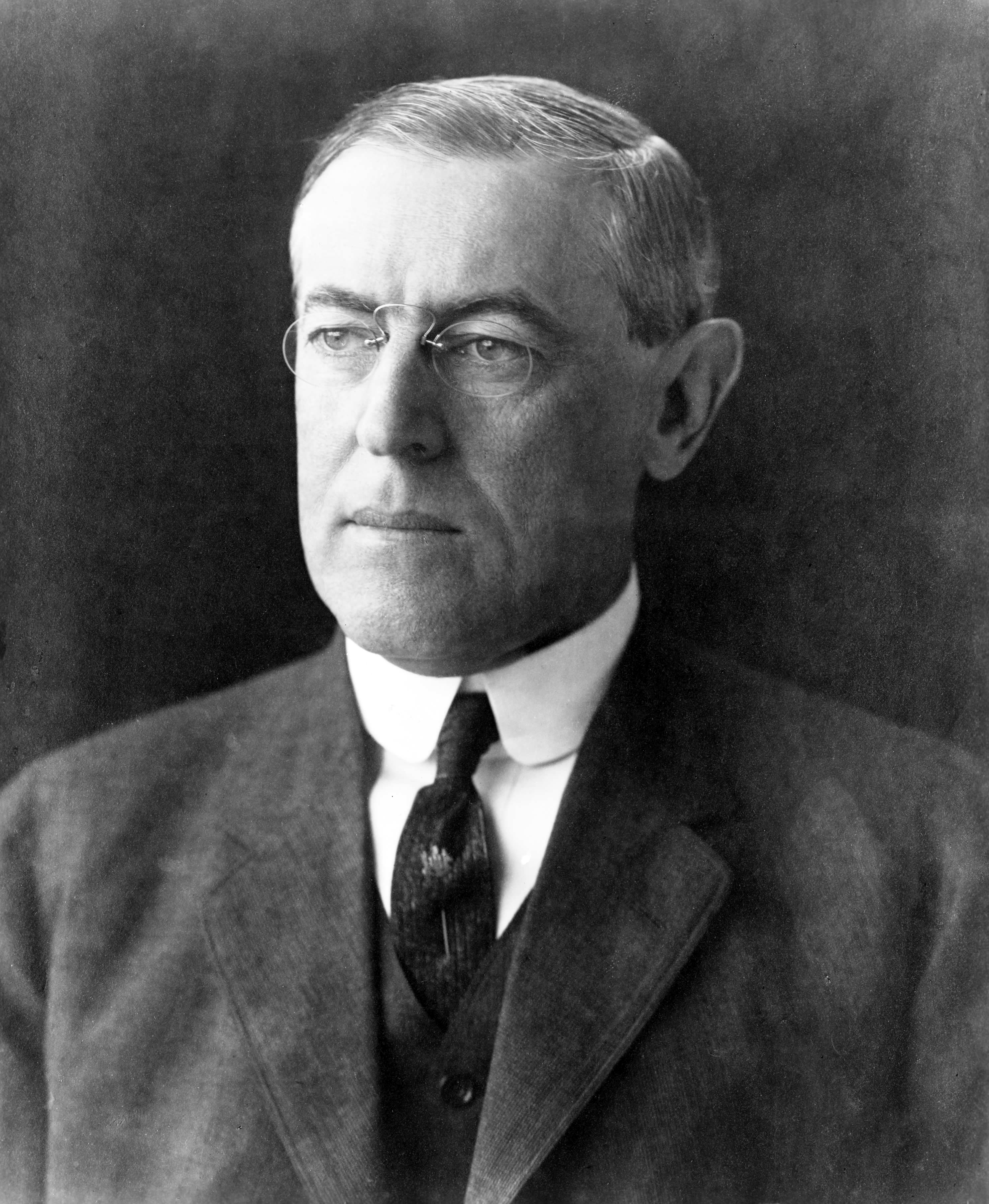 President of the United States Thomas Woodrow Wilson, head-and-shoulders portrait, facing left.